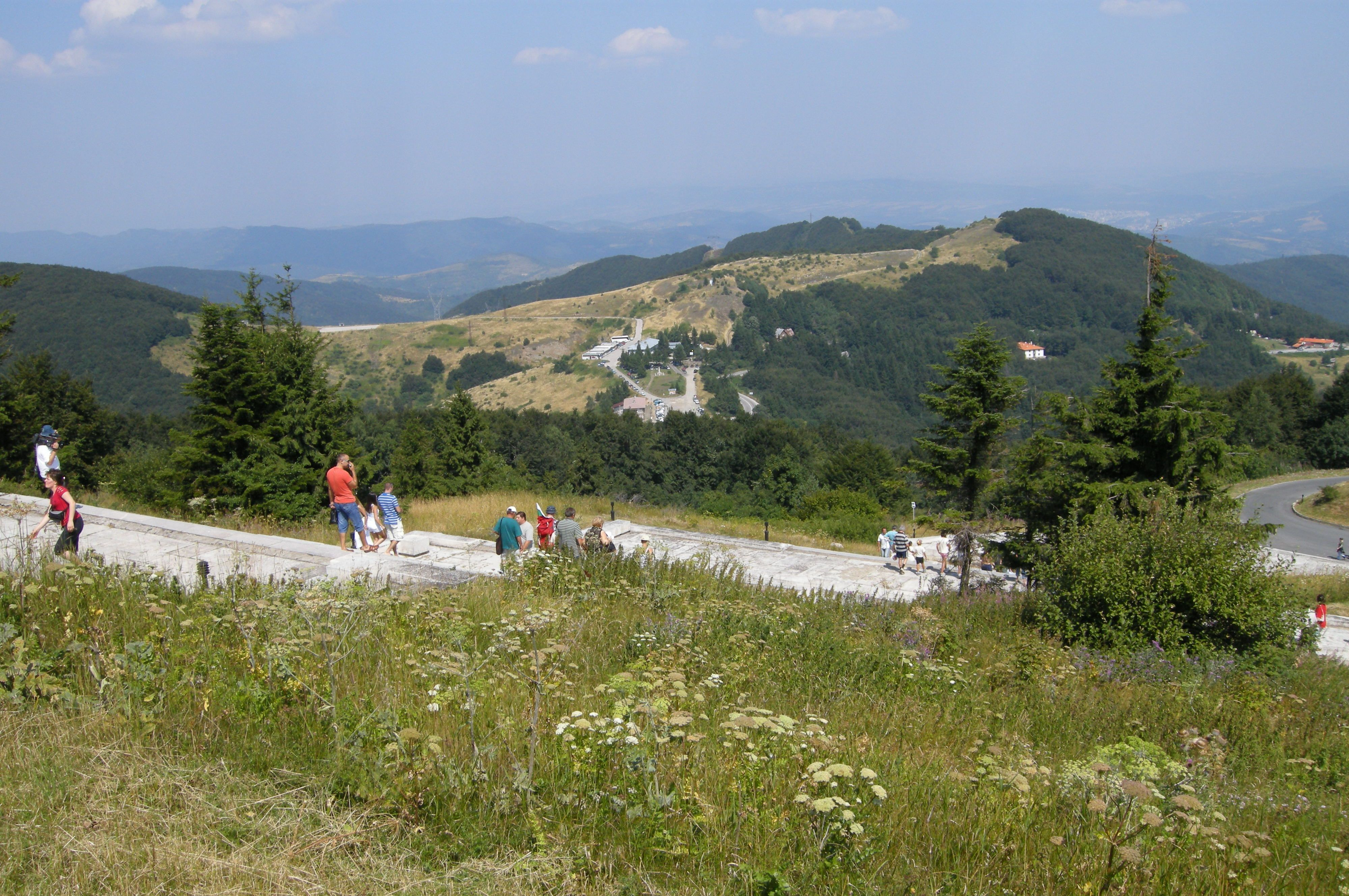 The contemporary Shipka Pass.